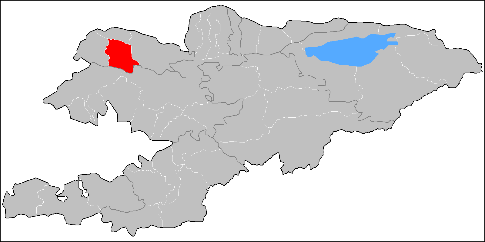 The location of the raion (district) of Bakay-Ata in Kyrgyzstan. Based on Image:Kyrgyzstan raions.png